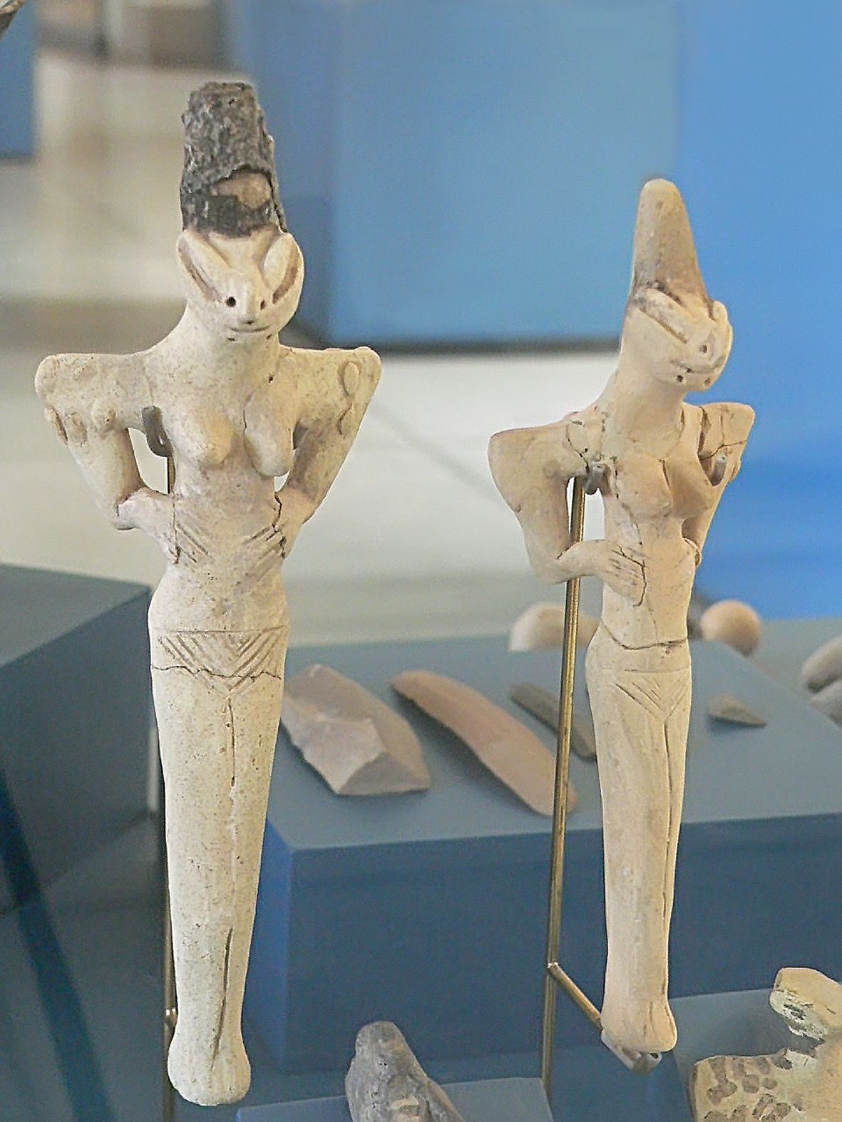 Photographed at the University of Pennsylvania Museum of Archaeology and Anthropology.